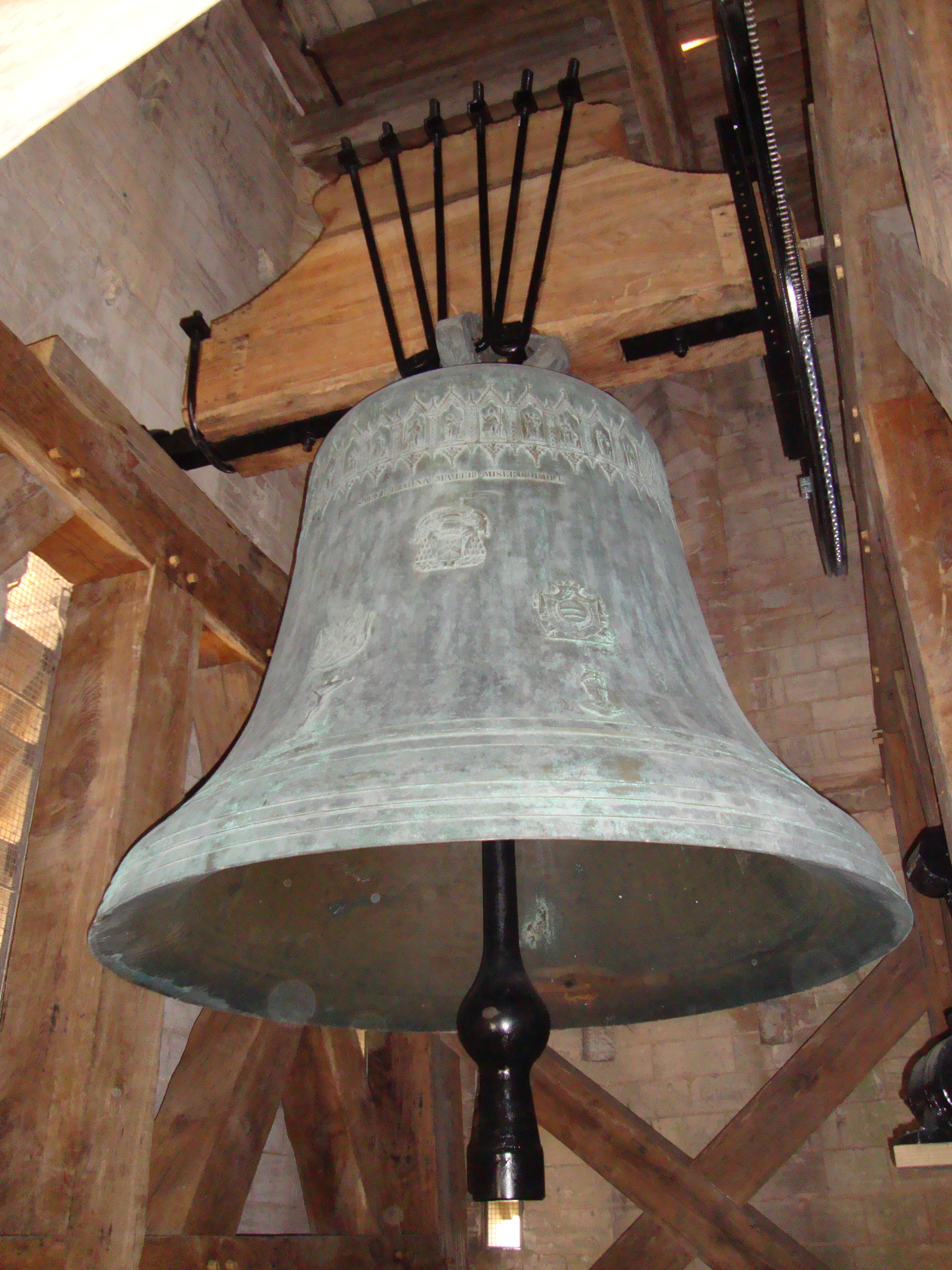 Bayeux, Cathedral Notre-Dame: Great bell (1858).